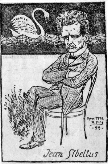 Alex Federley's cartoon of the composer of the Swan of Tuonela, 1898.